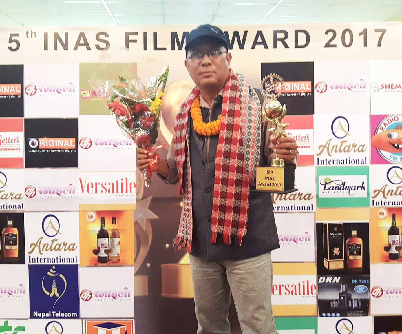 Raju Shah Receving Hunour for the Namaste Nepal from 5th INAS Film Awards 2017.